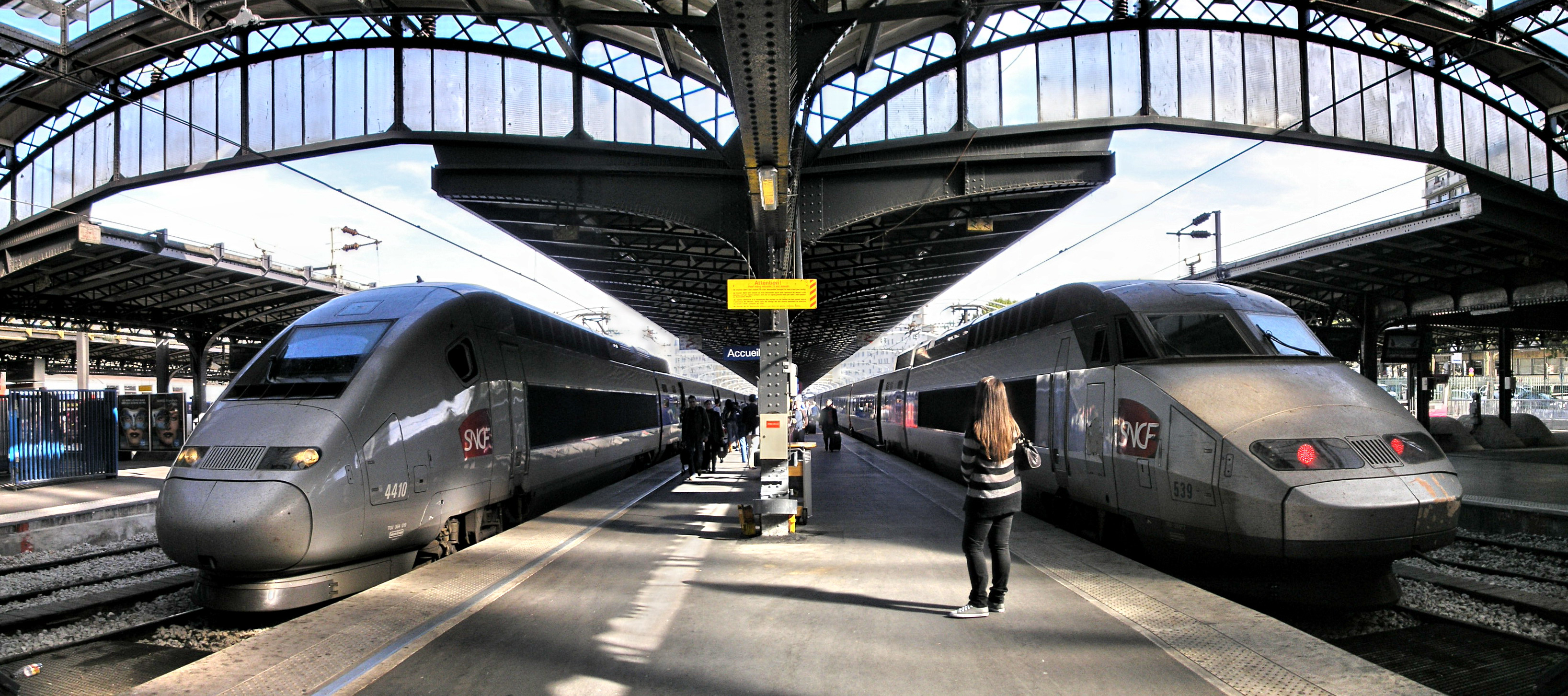 Arrival platform with some TGV trains at Gare de l'Est, Paris